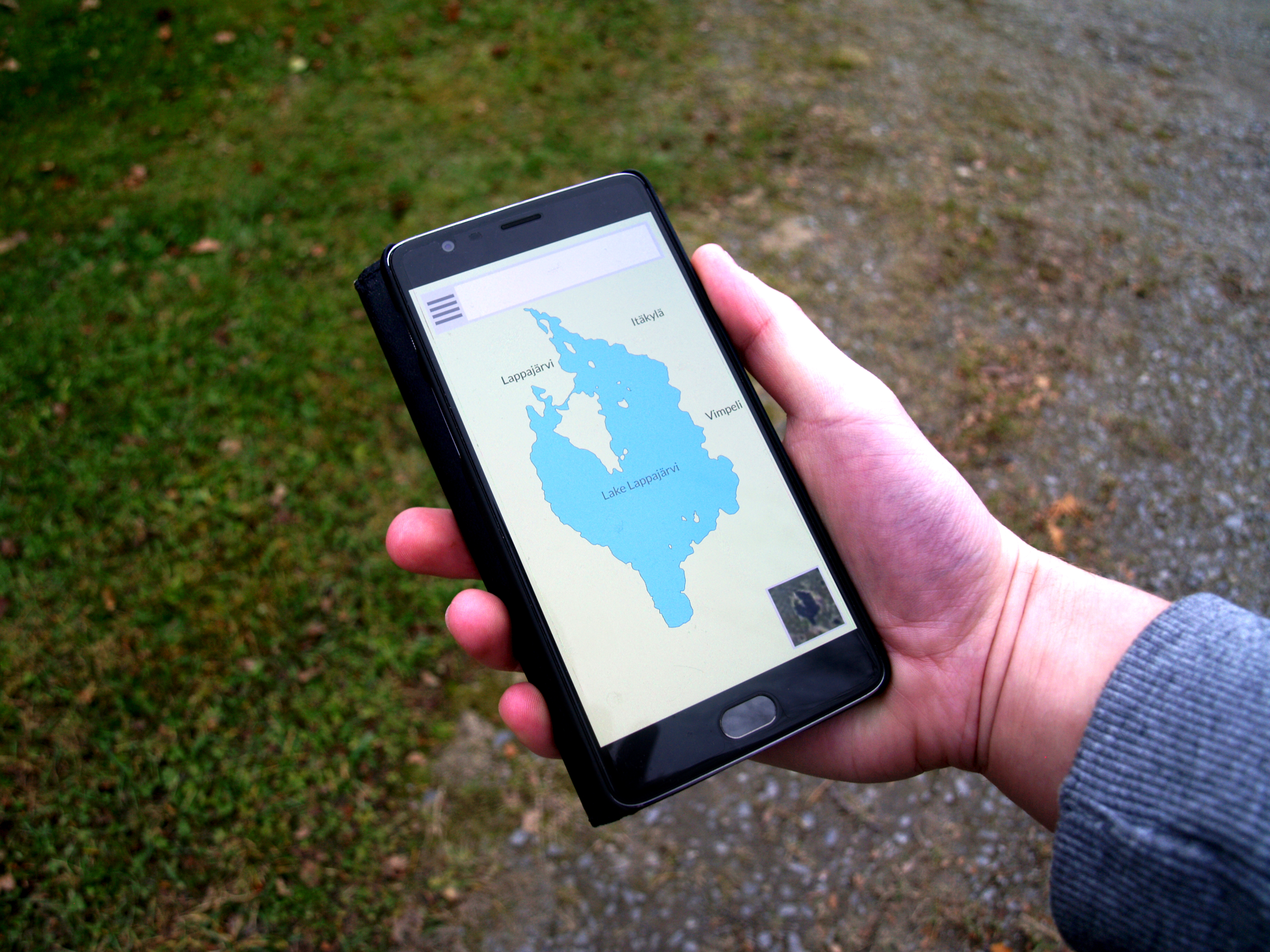 Smartphone with navigation map app.